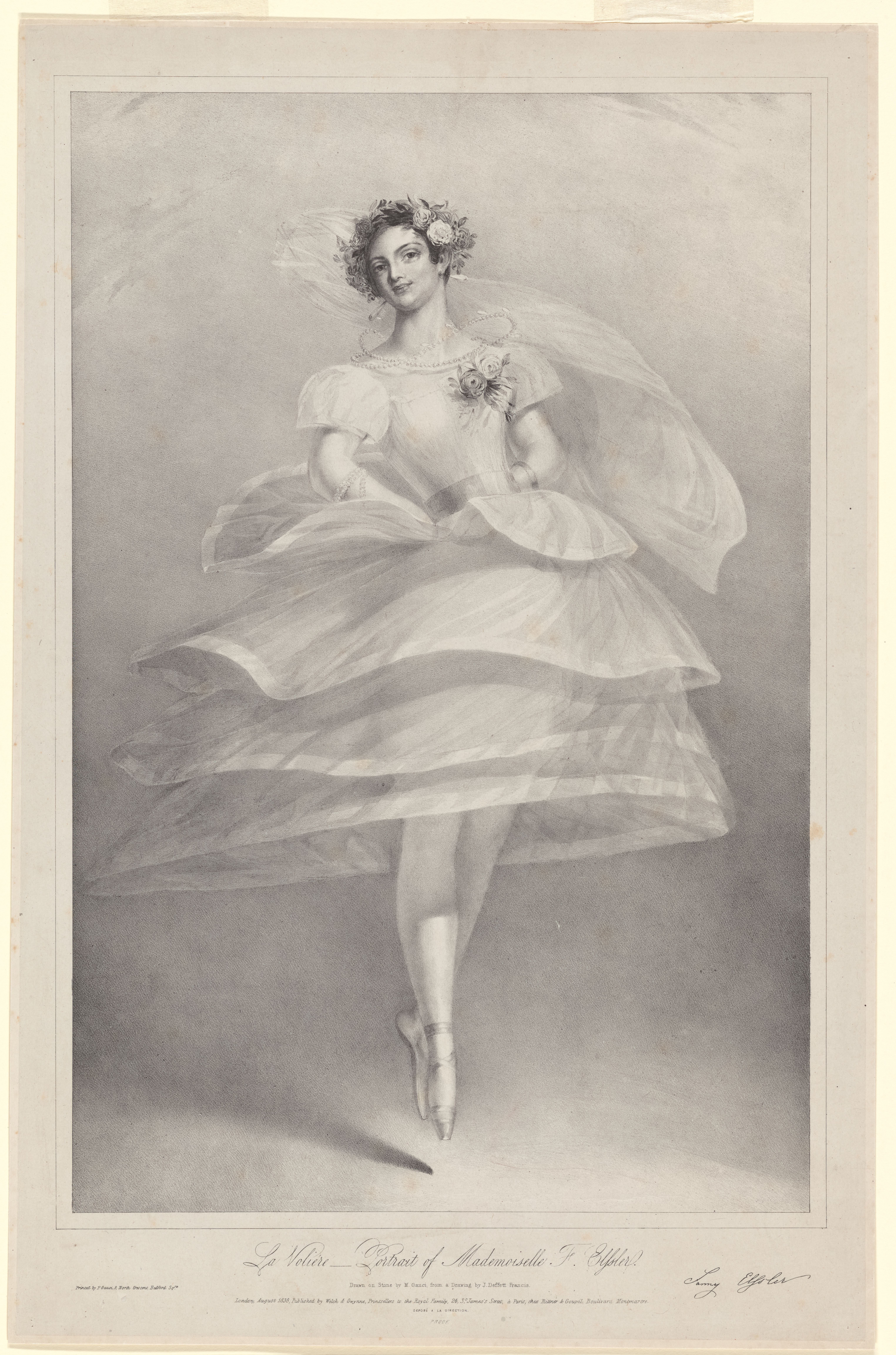 A lithograph of the dancer Fanny Elssler dancing in the ballet La Volière.